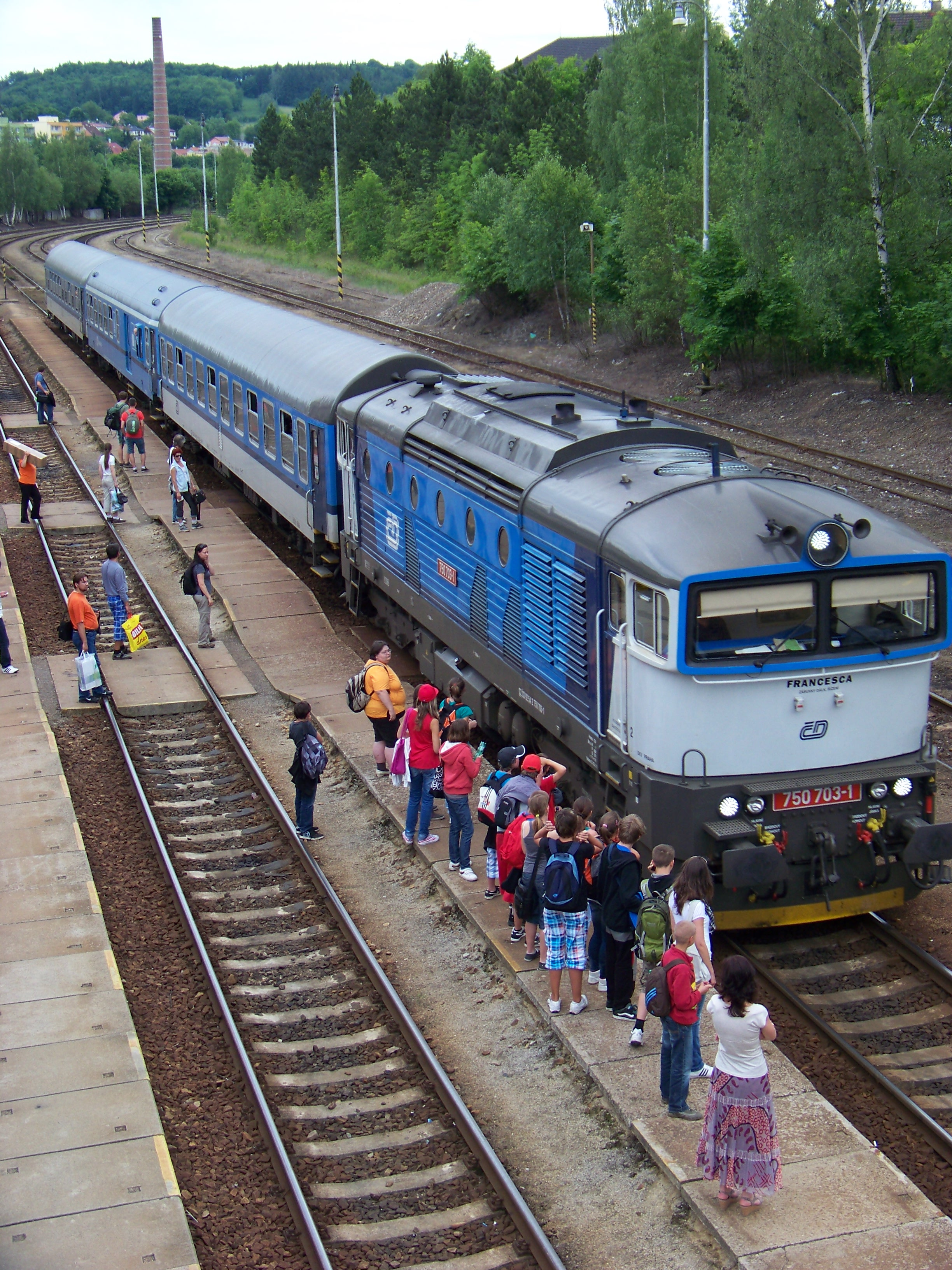 Příbram IV, Příbram District, Central Bohemian Region, the Czech Republic. A train station with a train. - OpenStreetMap (Info)